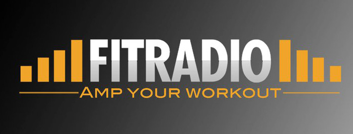 FIT Radio's logo, which displays the company's appeal to people who work out.